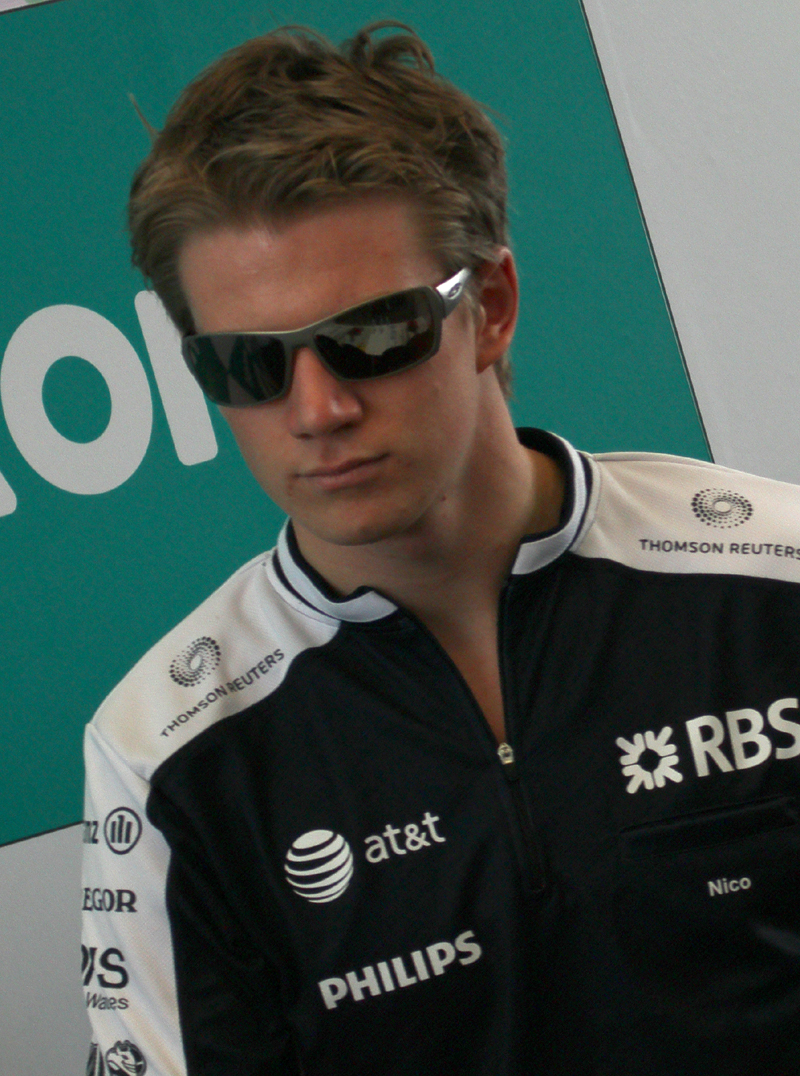 Formula One 2010 Rd.3 Malaysian GP: Nico Hülkenberg (Williams) at autograph session on Sunday.